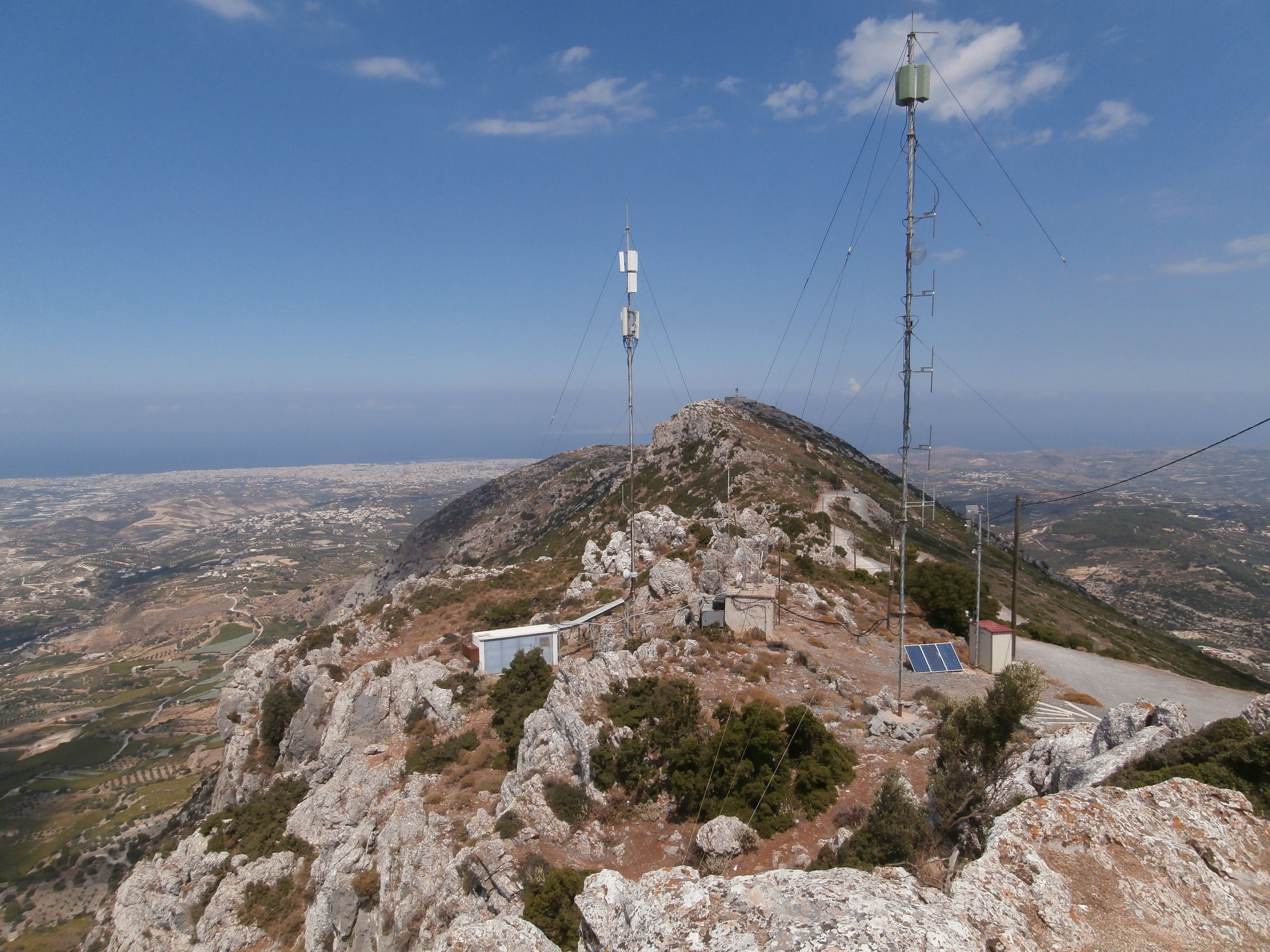 The top of Yuctas, looking north from Afentis Christos